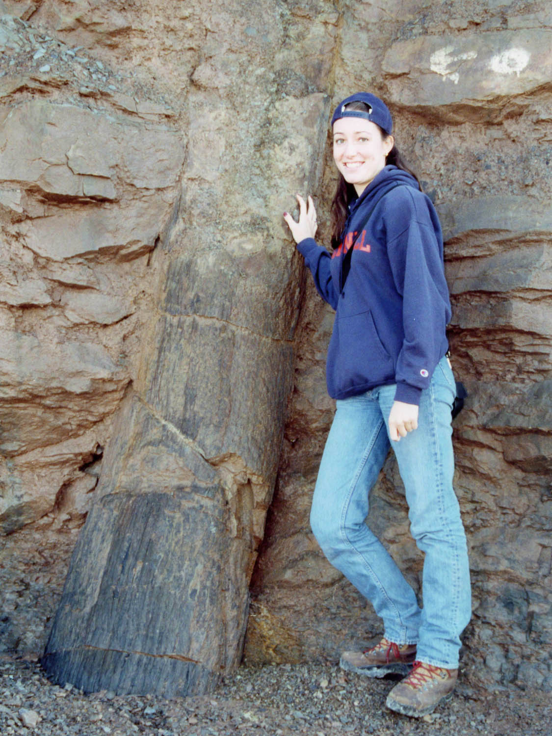 Standing lycopsid within the Joggins Formation (Pennsylvanian), Joggins Fossil Cliffs UNESCO World Heritage Site, Nova Scotia.